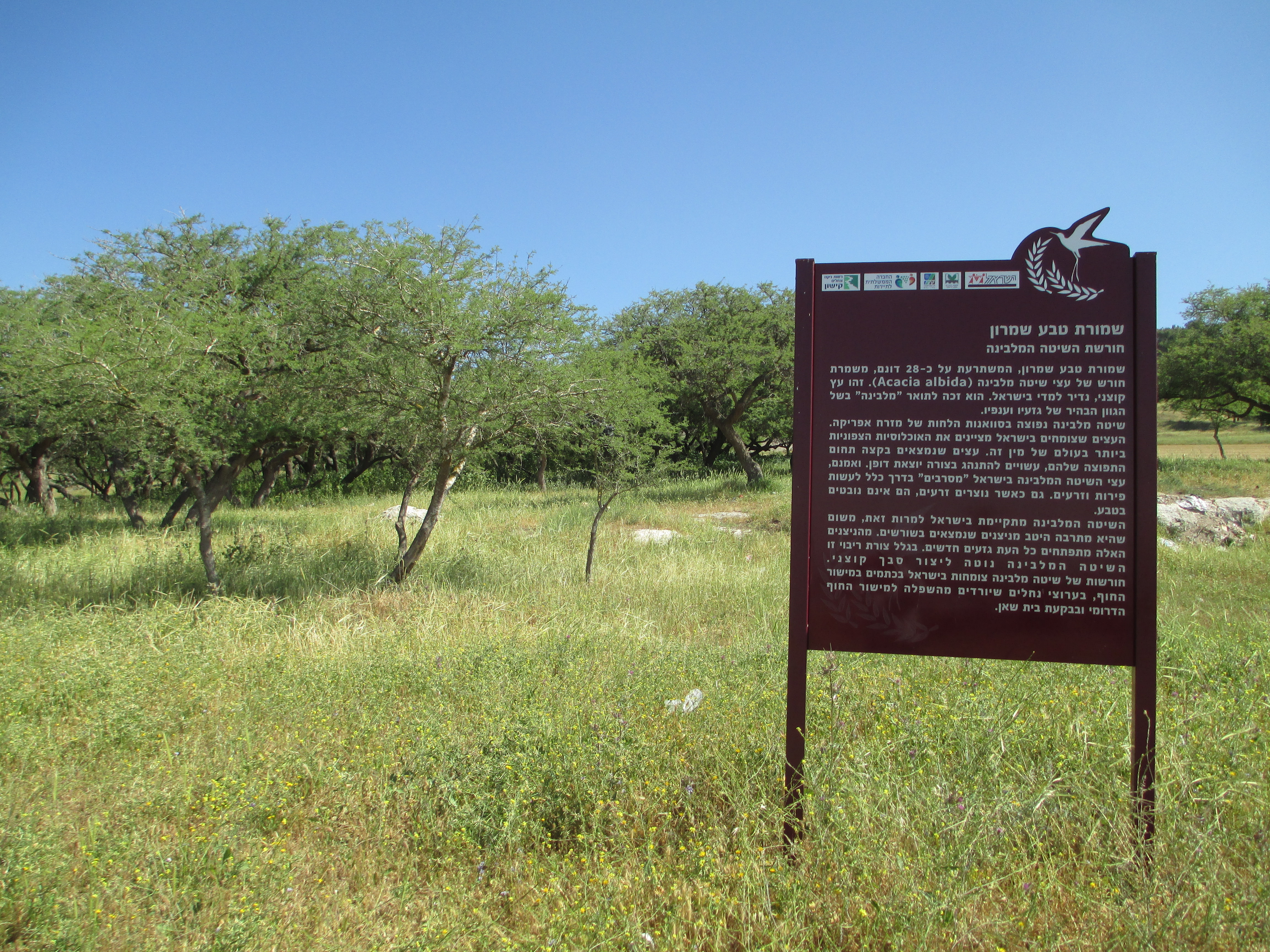 Acacia albida nature reserve in Tel Shimron